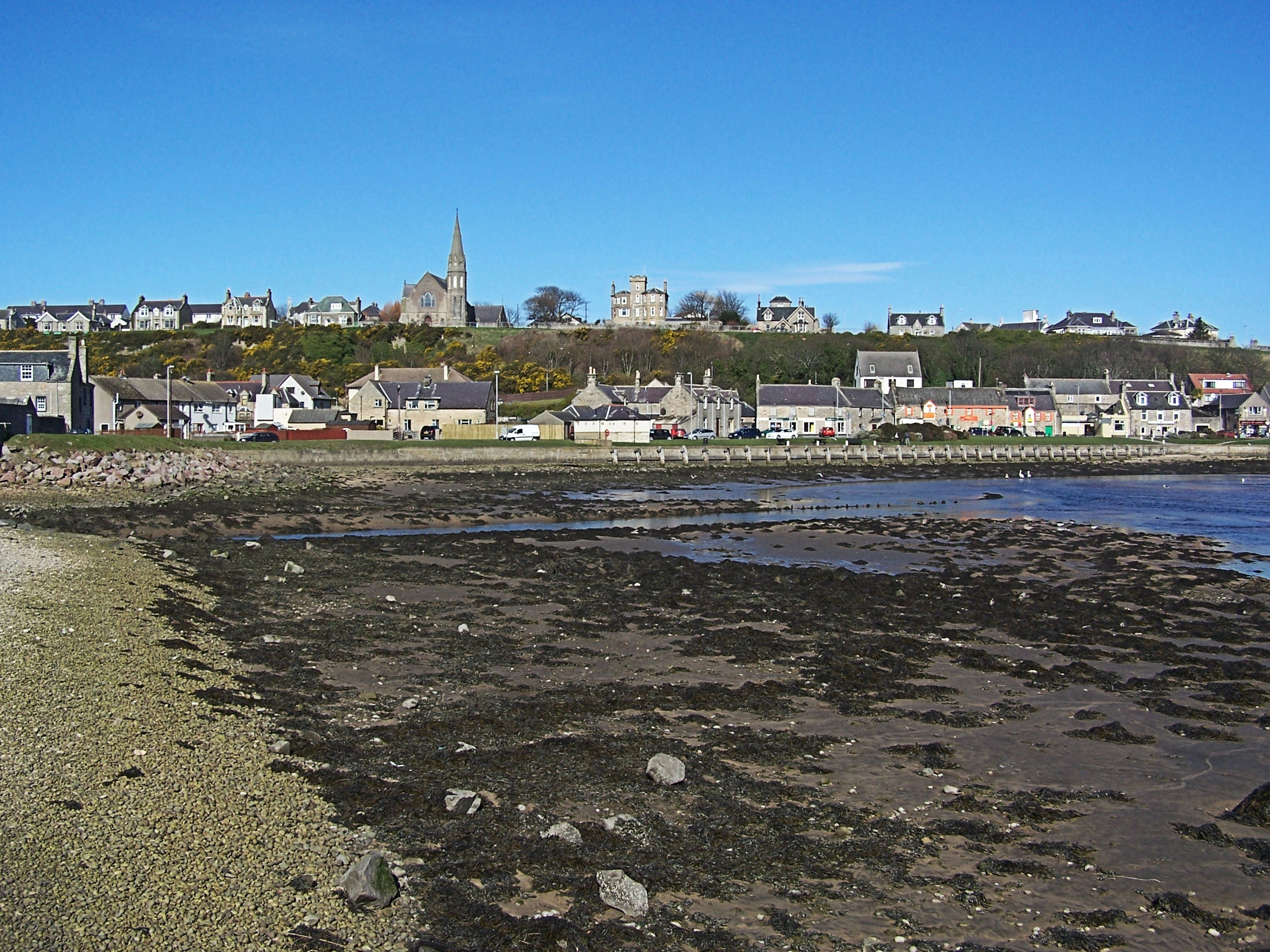 Lossiemouth, Moray, Scotland